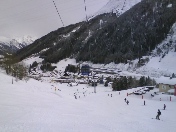 A shot of St. Anton from the main piste into town